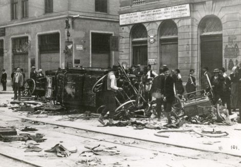 Destroyed property of Serbs in Sarajevo, after the violence during 28-29 June 1914. Note that the newspaper, where this image was found, mistakenly assumed that the image depicts the remains of Franz Ferdinand's motorcade after the assassination. However, this image is taken at another location. As described by historians R. J. Donia and V. Dedijer in their respective books about Sarajevo, this was taken on June 29 and depicts the aftermath of the anti-Serb riots.